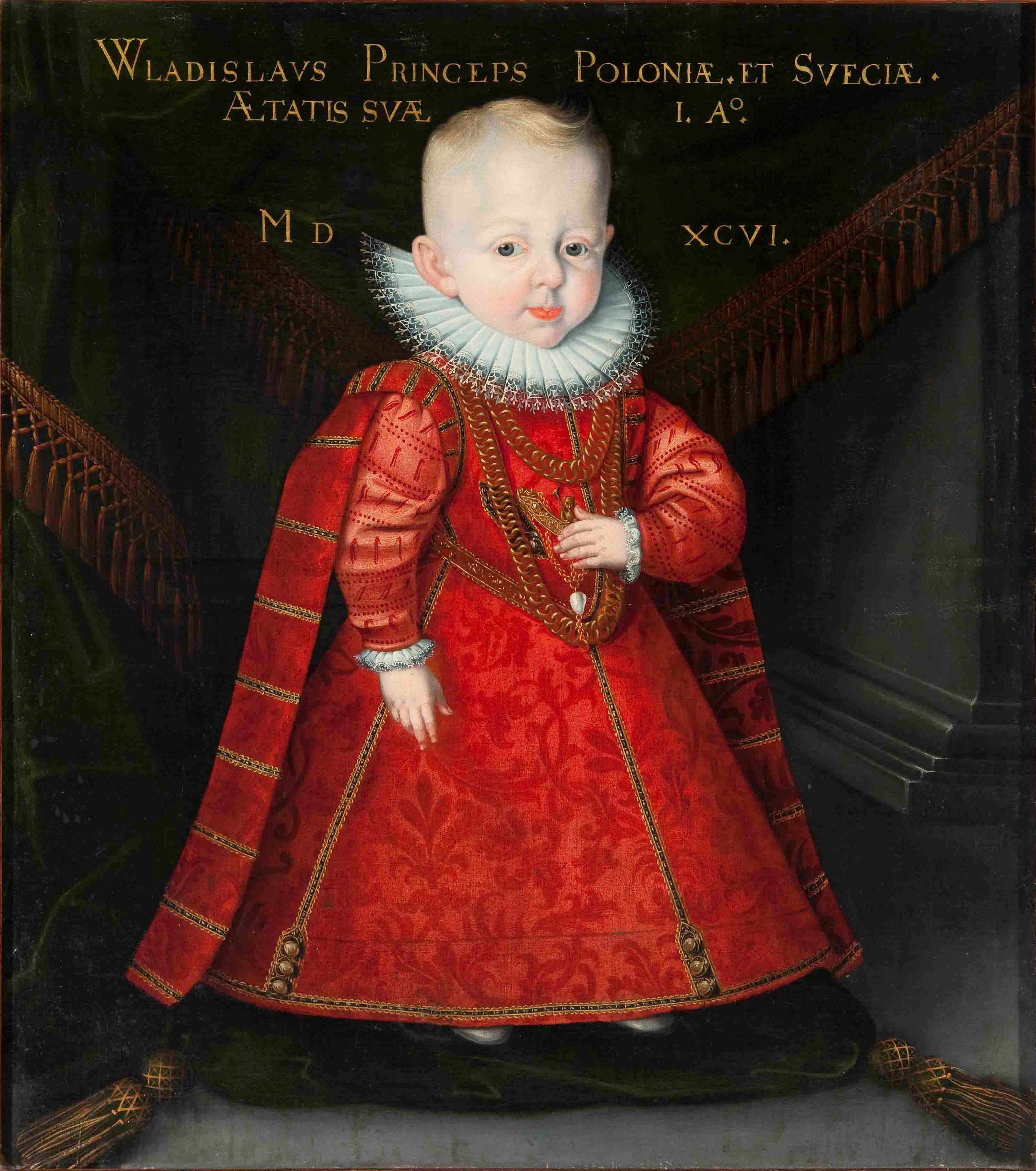 Portrait of Władysław Vasa (1595-1648), son of King Sigismund III of Poland.